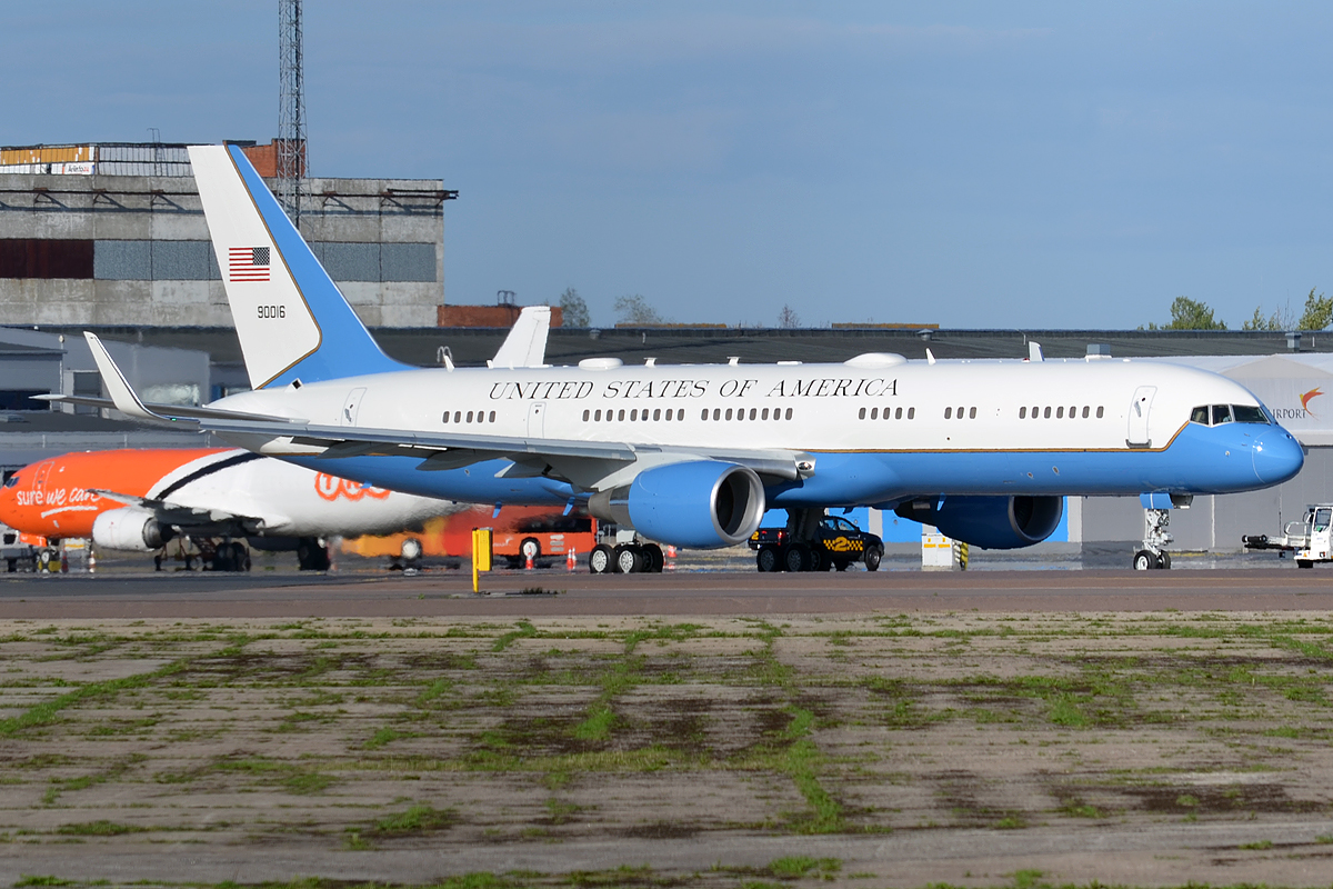 U.S. Air Force, 09-0016, Boeing C-32A